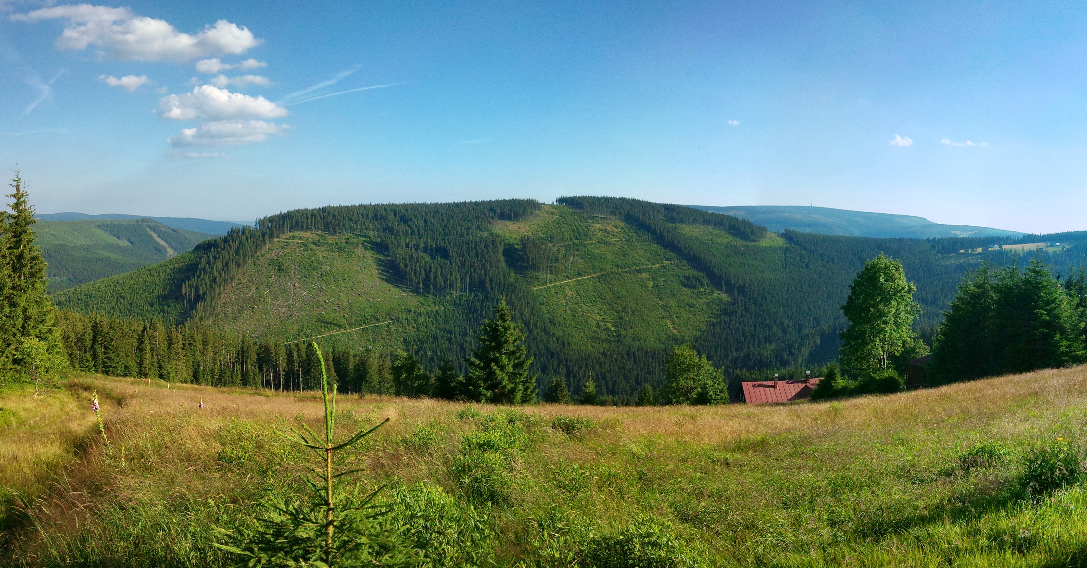 Pěnkavčí vrch in Krkonoše mountains